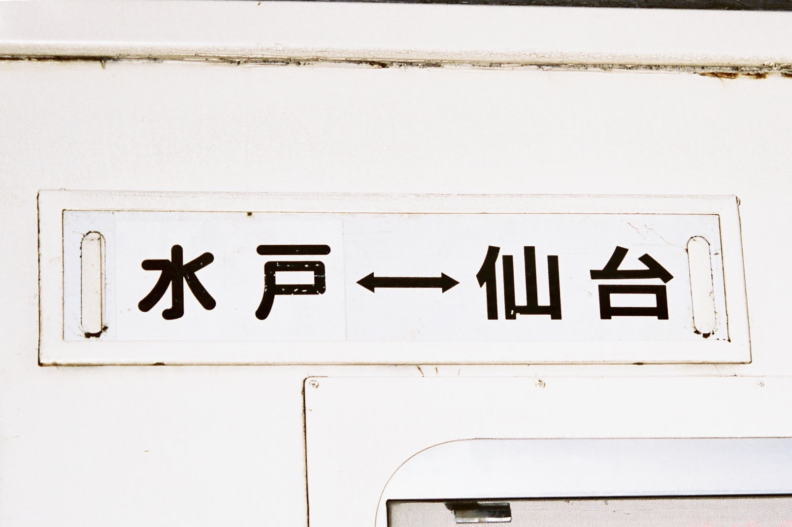 Sign board(Mito-Sendai) on Joban line local train